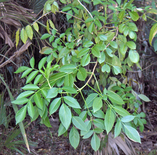 Found in Wekiwa Springs State Park, Florida